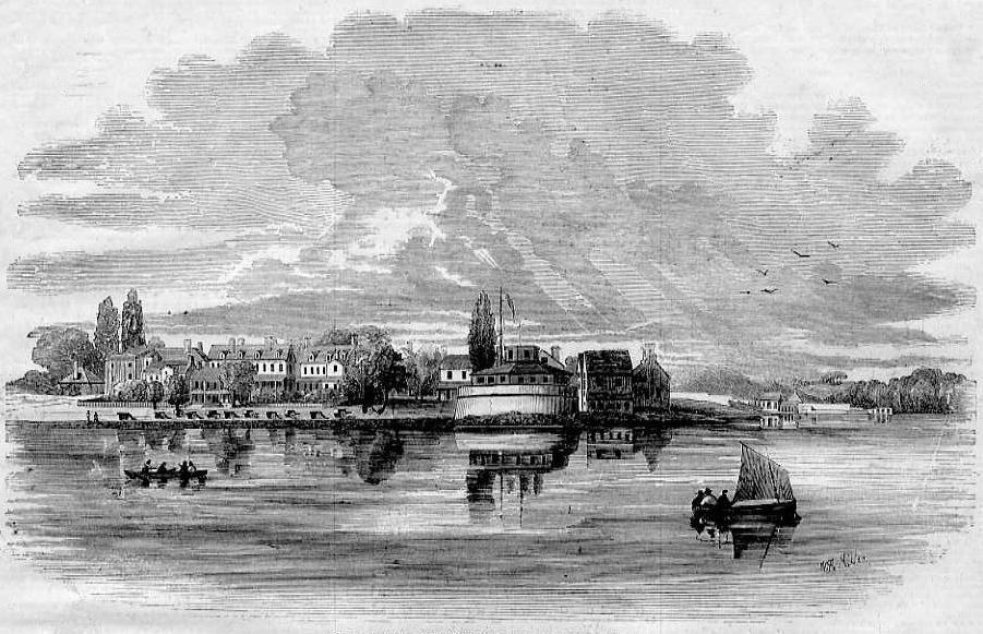 General View of the Naval Academy, Annapolis, Maryland, a wood engraving after a drawing by W. R. Miller (Miller, William Rickarby, 1818-1893), published March 1853 in Illustrated News, New York, New York.